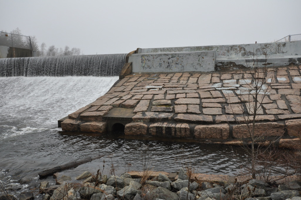 Doane's Sawmill/Deep River Manufacturing Company, Westbrook/Deep River, Connecticut. View of the mill site (on the right); the tail race of the mill is the pipe visible near the bottom.